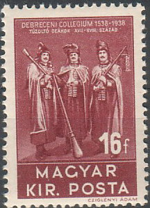 Stamps issued to commemorate the 400th anniversary of Reformed College of Debrecen (Fireworker students in 17-18th century) Denomination: 16 fillér